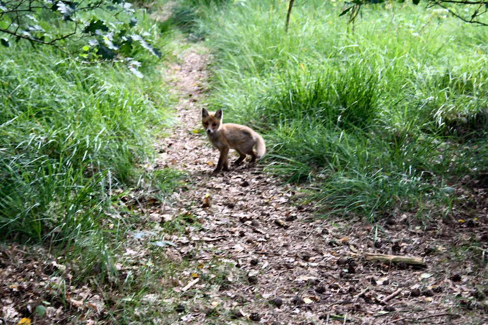 A fox pictured in Dutch national park "De Hoge Veluwe".